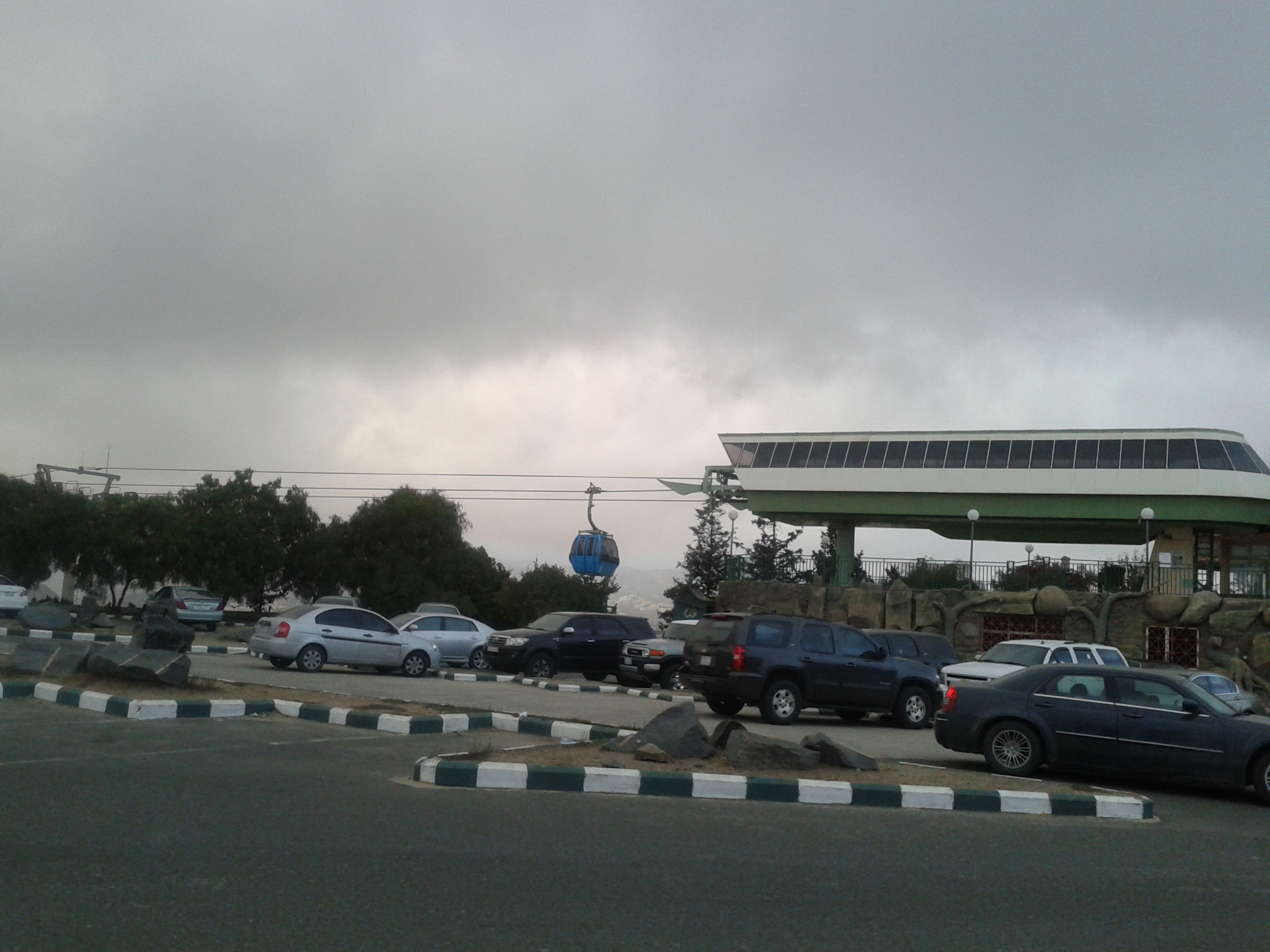 Abha city